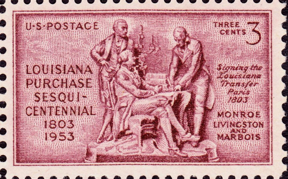 Postage stamp, 1953 Issue, Louisiana Purchase